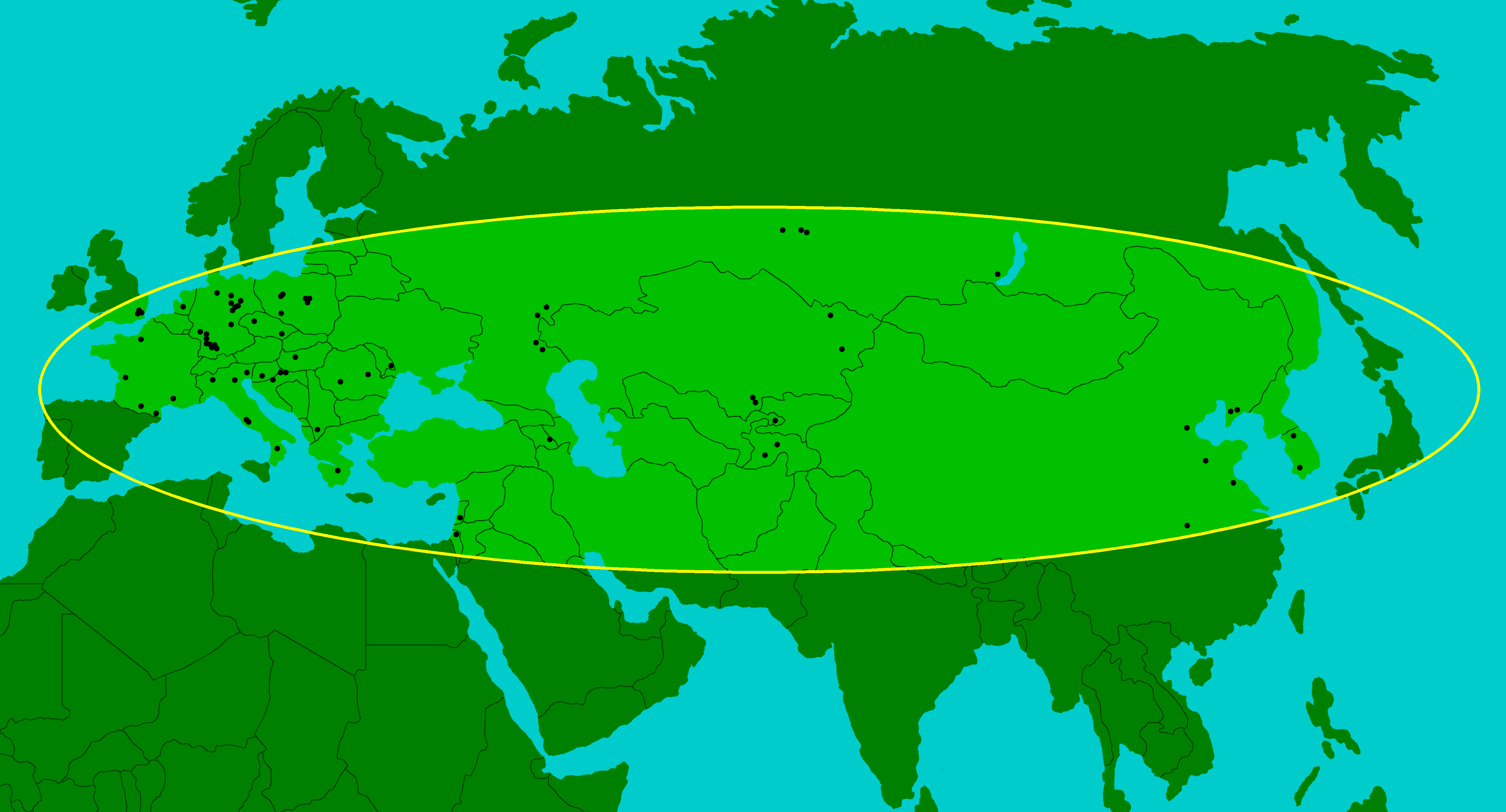 Distribution area of the forest rhino (Stephanorhinus kirchbergensis)